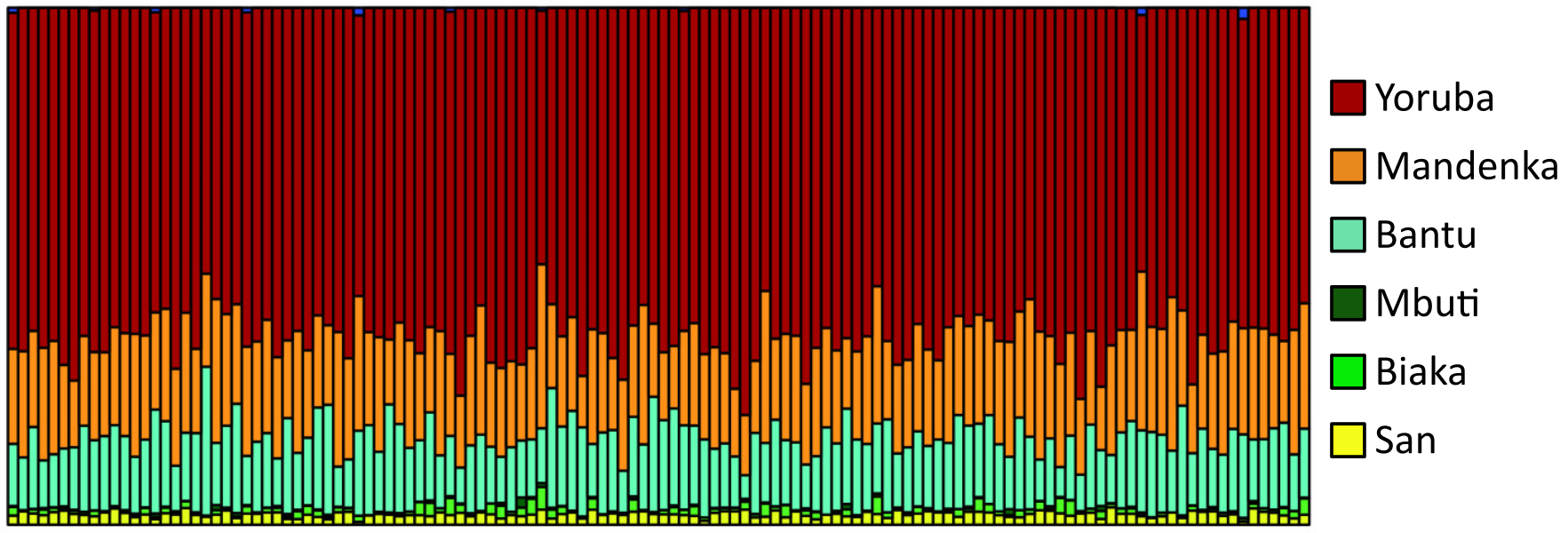 Individual ancestry estimates of African components for 128 African Americans based on analysis of more than 450,000 SNPs.